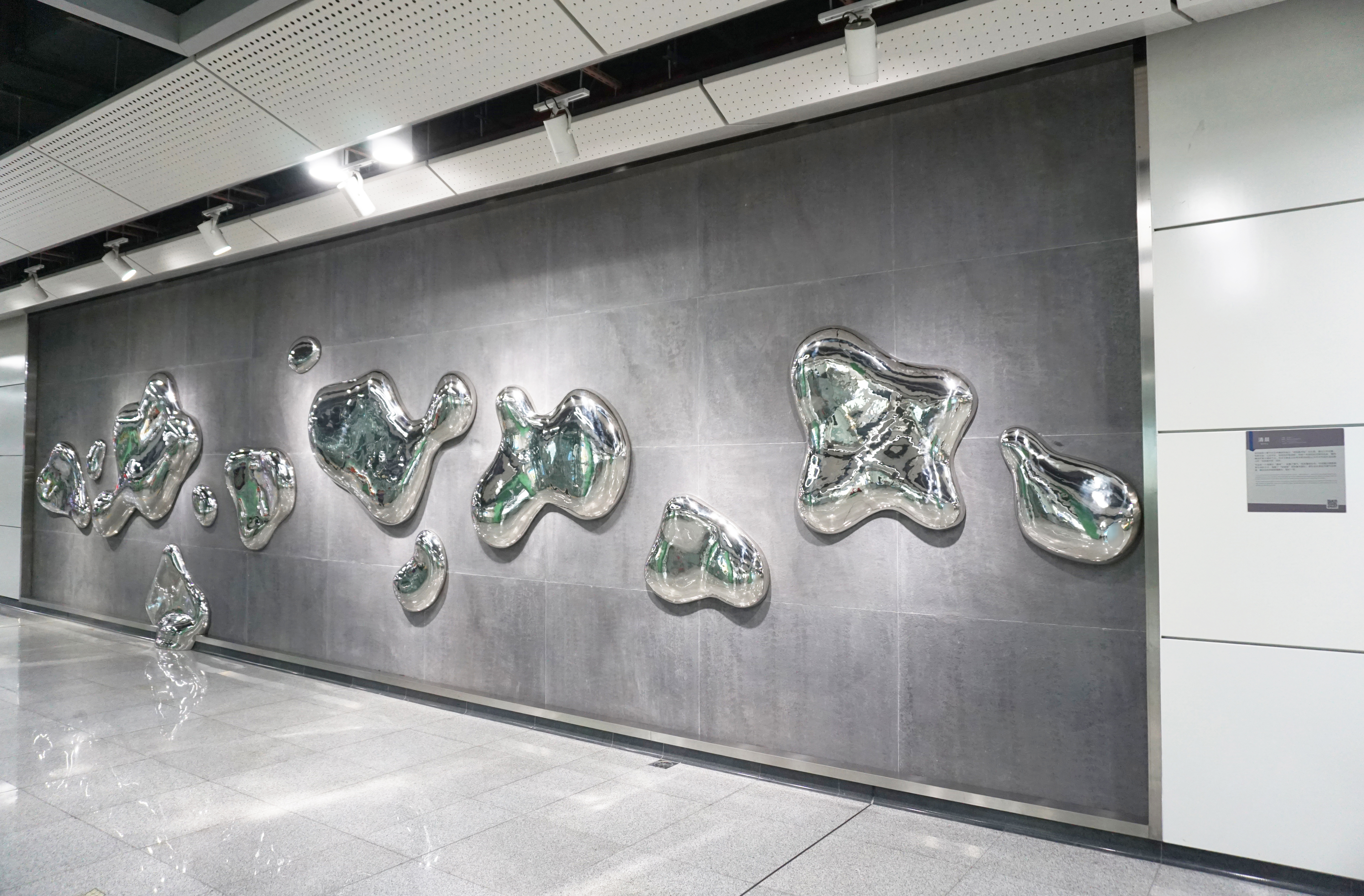 Zhuguang Station in Nanshan, Shenzhen.